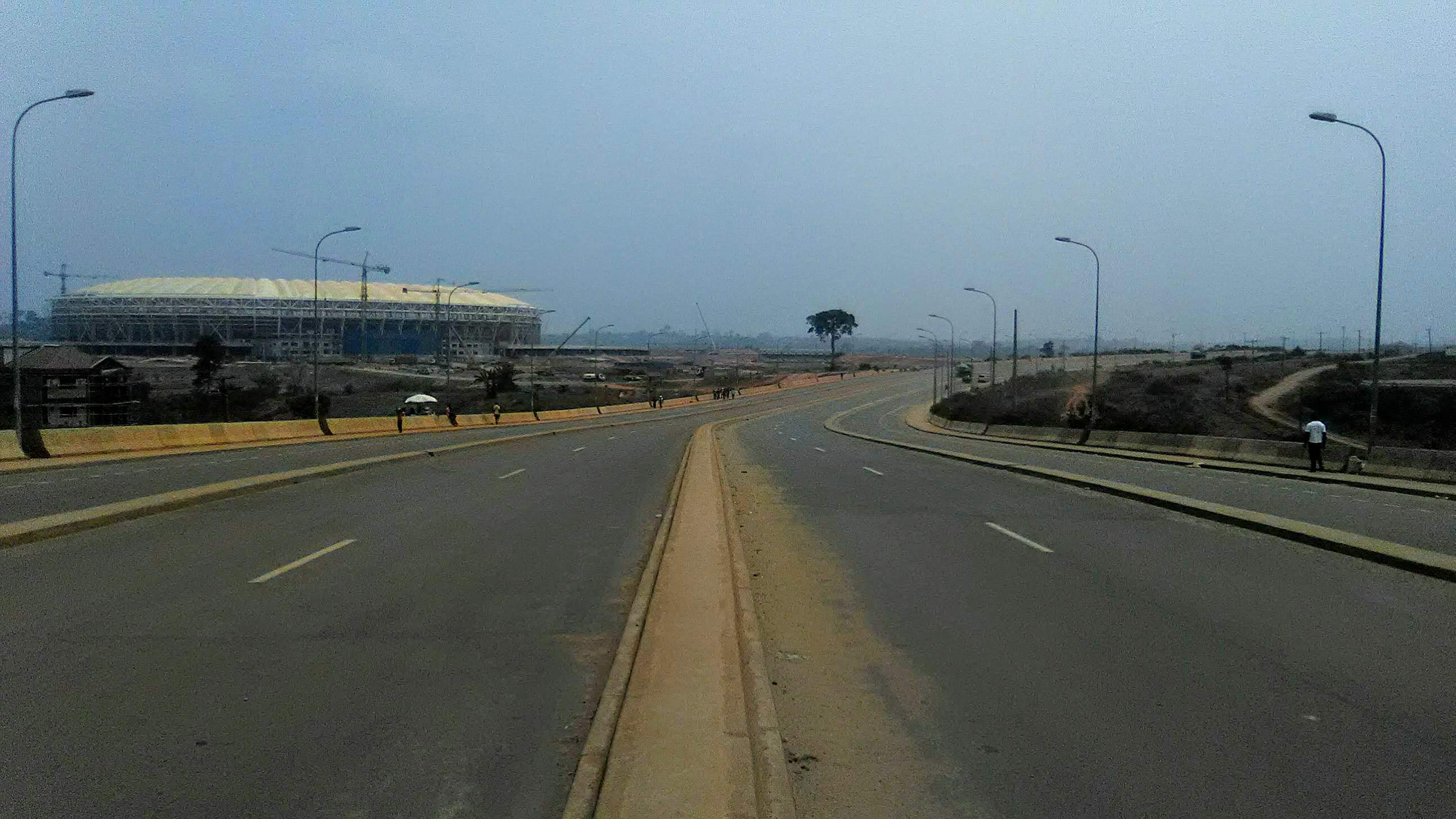 This is an image with the theme "Africa on the Move or Transport" from: Cameroon